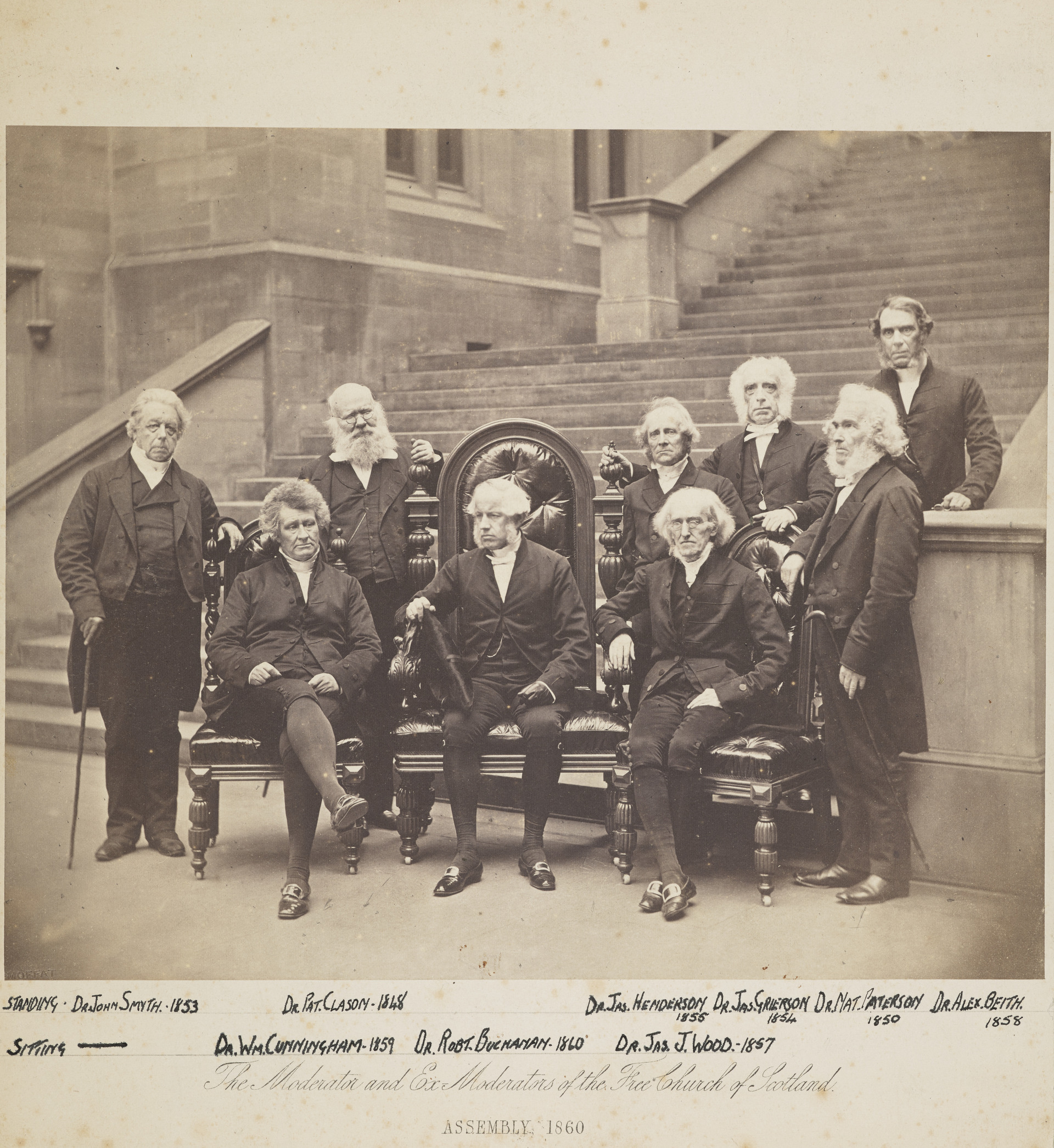 National Galleries Scotland John Moffat The Moderator and Ex Moderators of the Free Church of Scotland, Assembly 1860